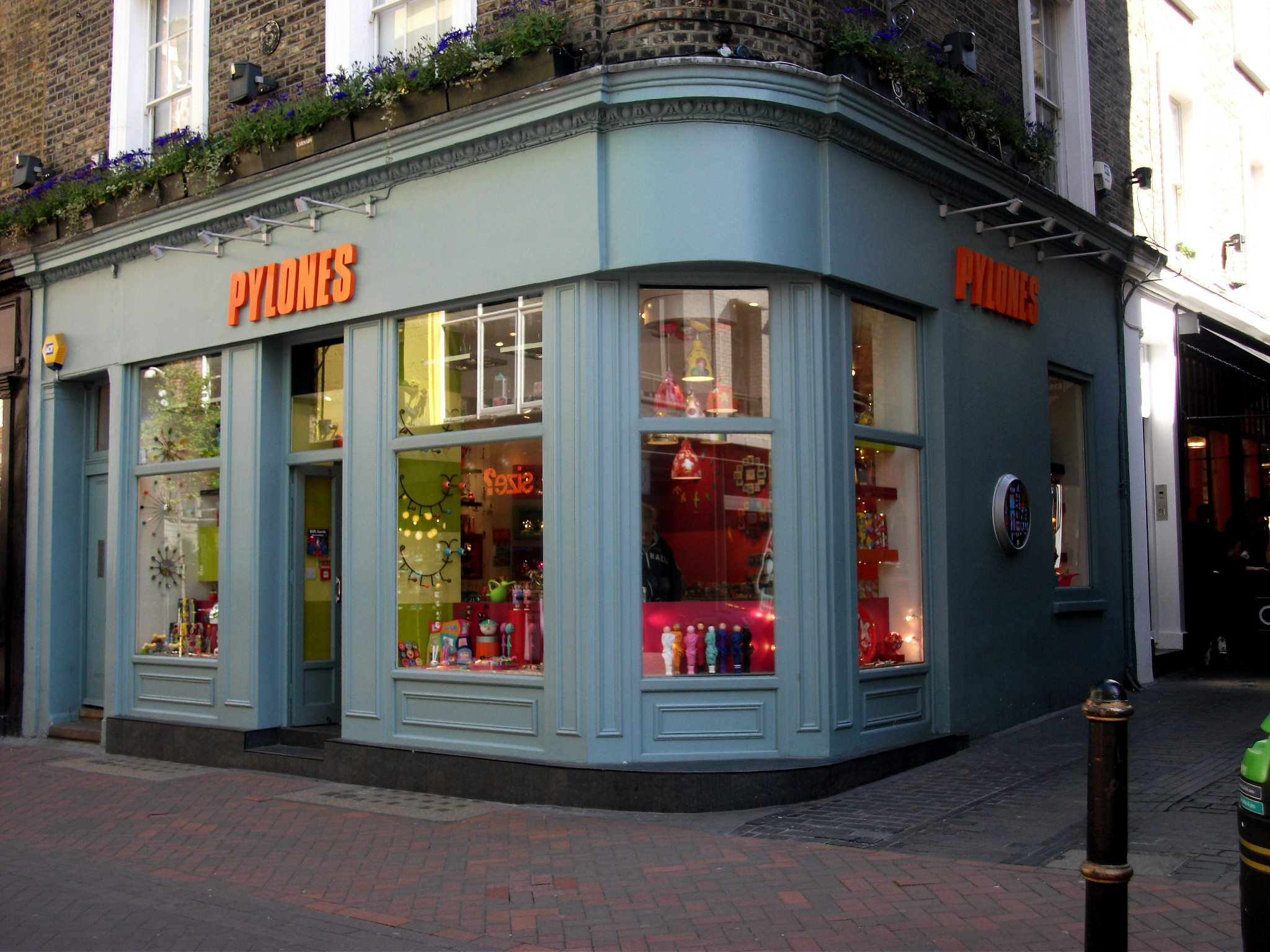 Pylones shop 28 Carnaby Street London W1F 7DQ +44(0)2072879164